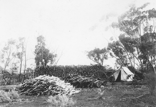 Stacks of cut sandalwood and a cutters camp, Jan. 1949